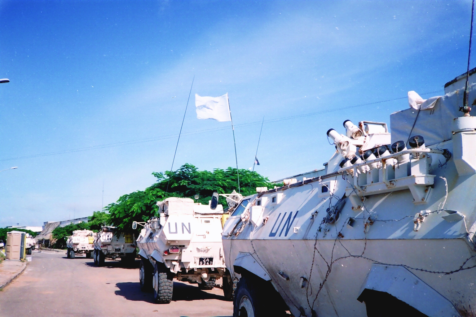 Around the UNOSOM university compound in Mogadishu in 1992 or 1993. APC Condor of the Malaysian Army.